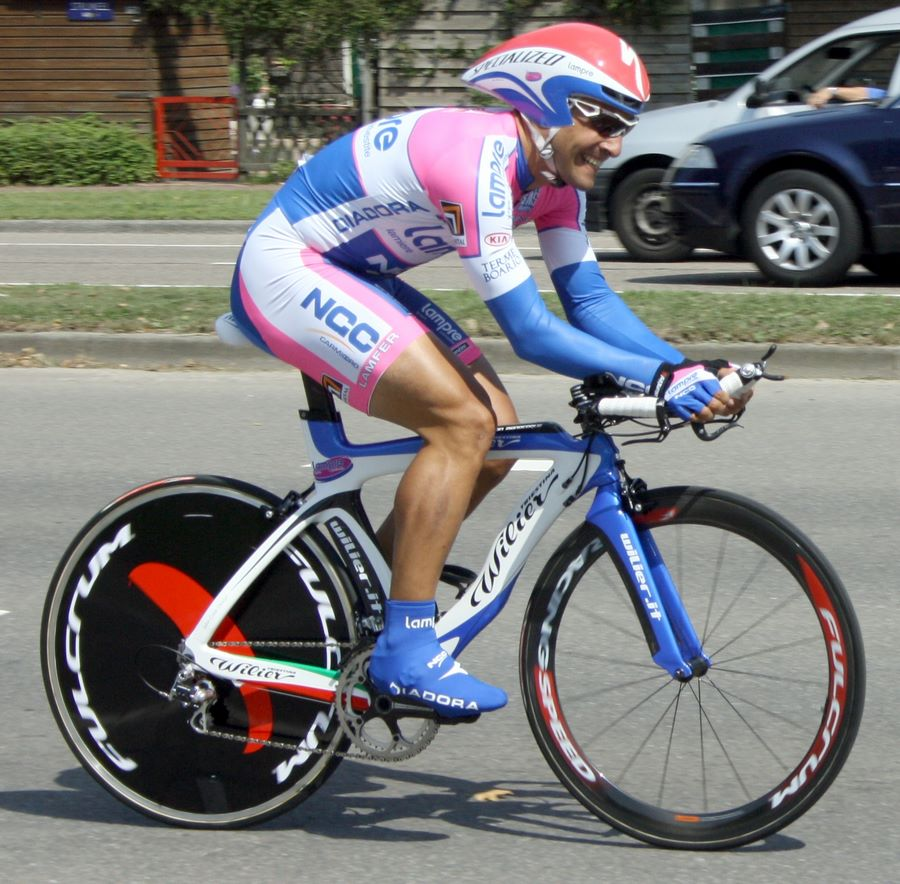 Angelo Furlan at the 2009 Eneco Tour prologue